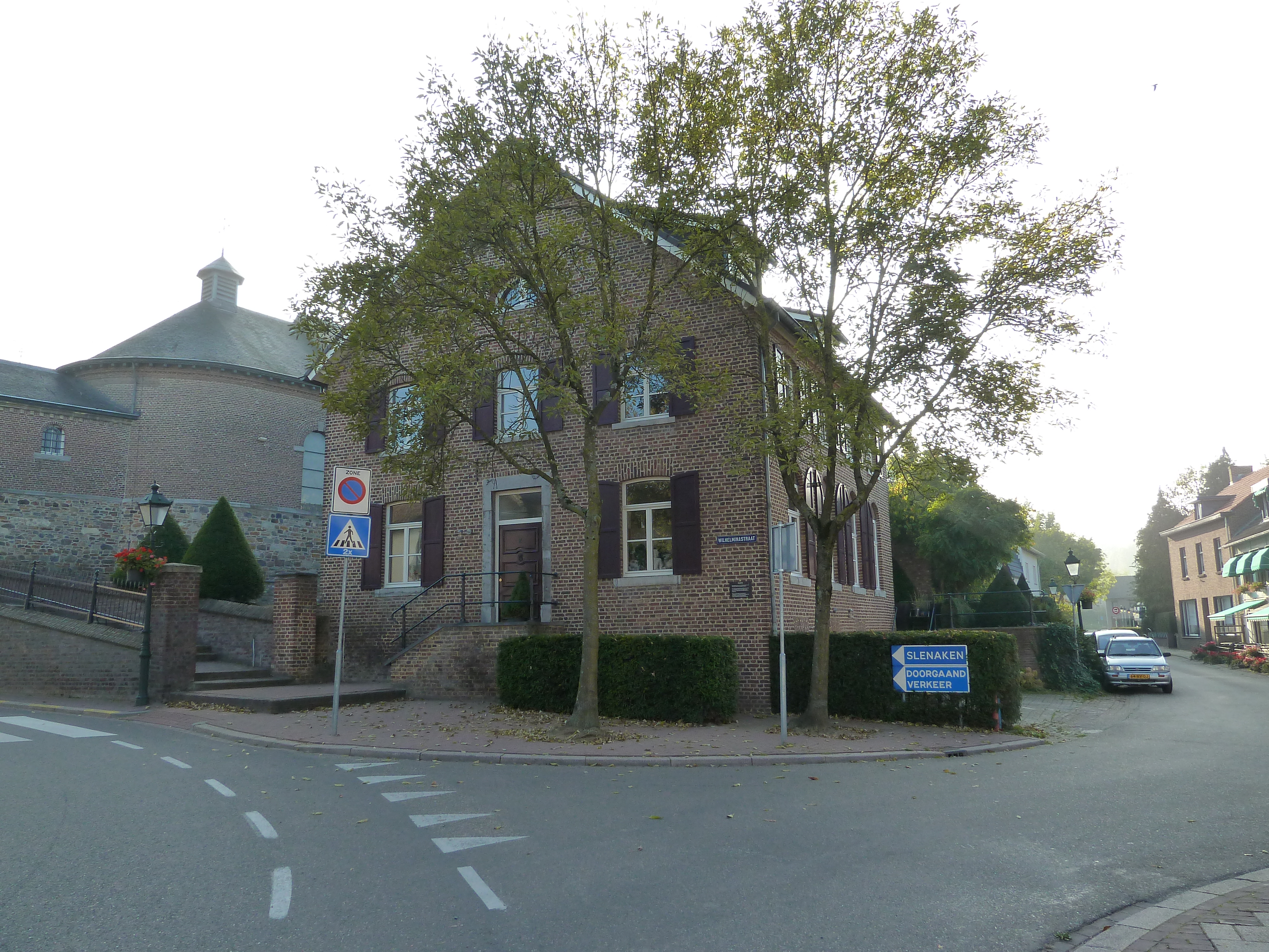 Kapelanie, Wilhelminastraat 2 in Epen, Limburg, the Netherlands